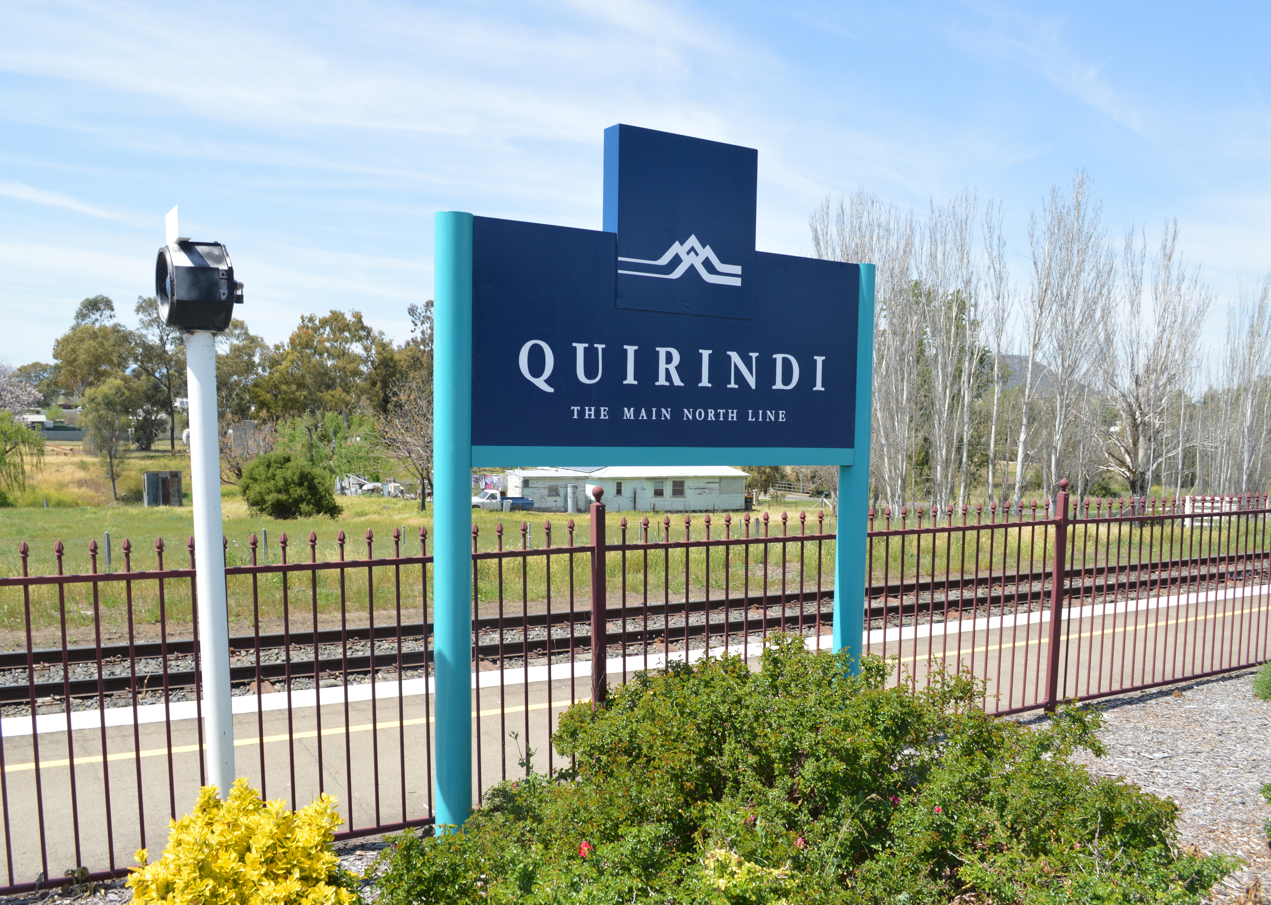 Quirindi railway station sign on the Main Northern railway line at Quirindi, New South Wales